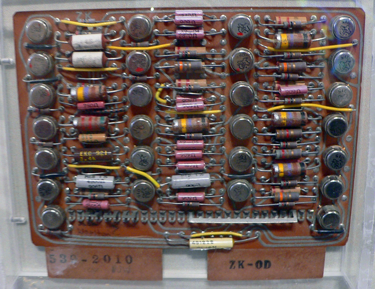 Taken in the Bradbury Museum, Los Alamos, NM